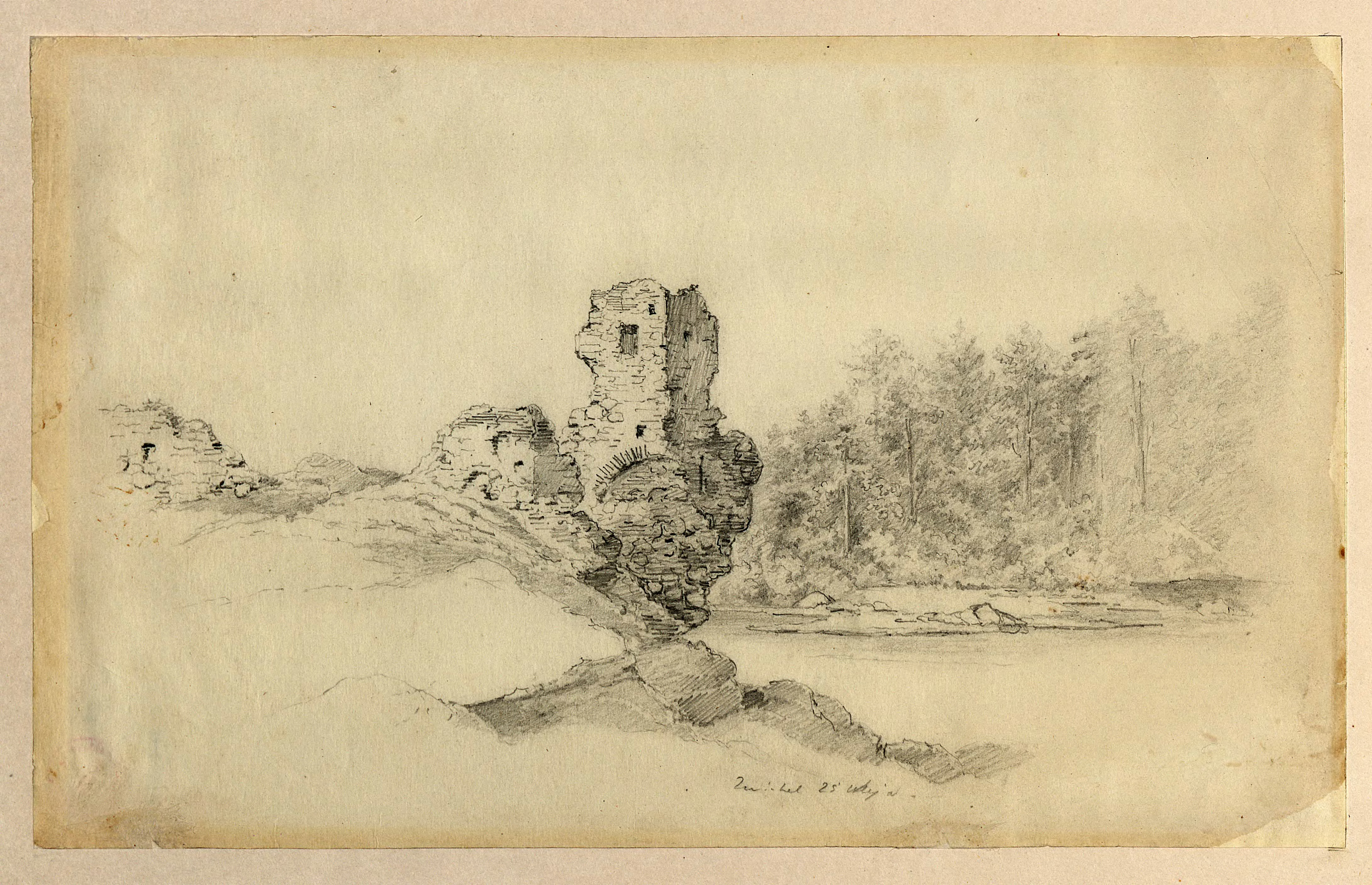 Zwiahel (Volyn)